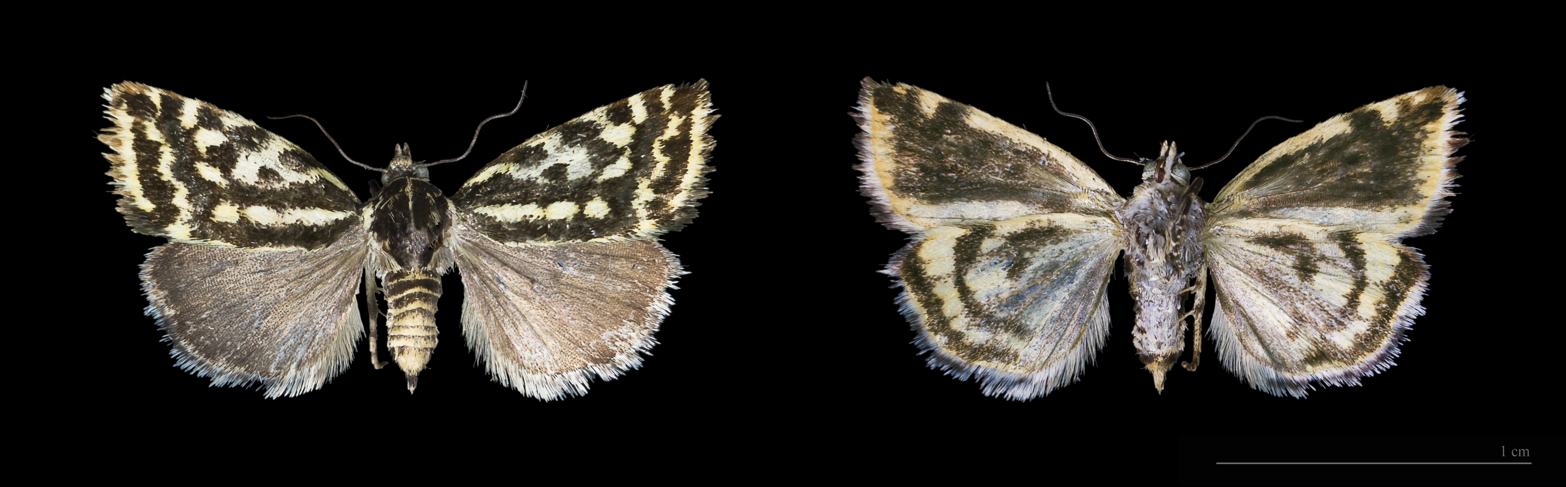 Spotted Sulphur ♂ - Two views of same specimen Locality:Lasparets, Sainte-Croix-Volvestre, Ariège, France